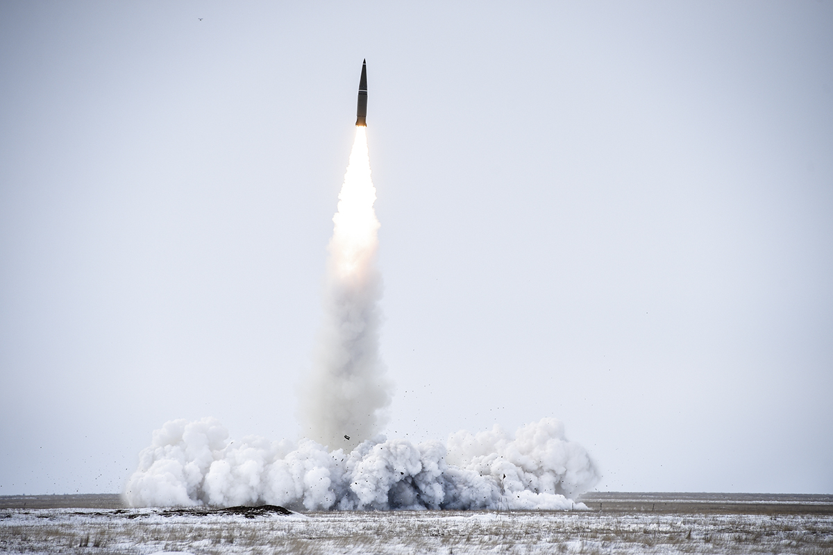 Combat launching of the Iskander-M in the Kapustin Yar proving ground.